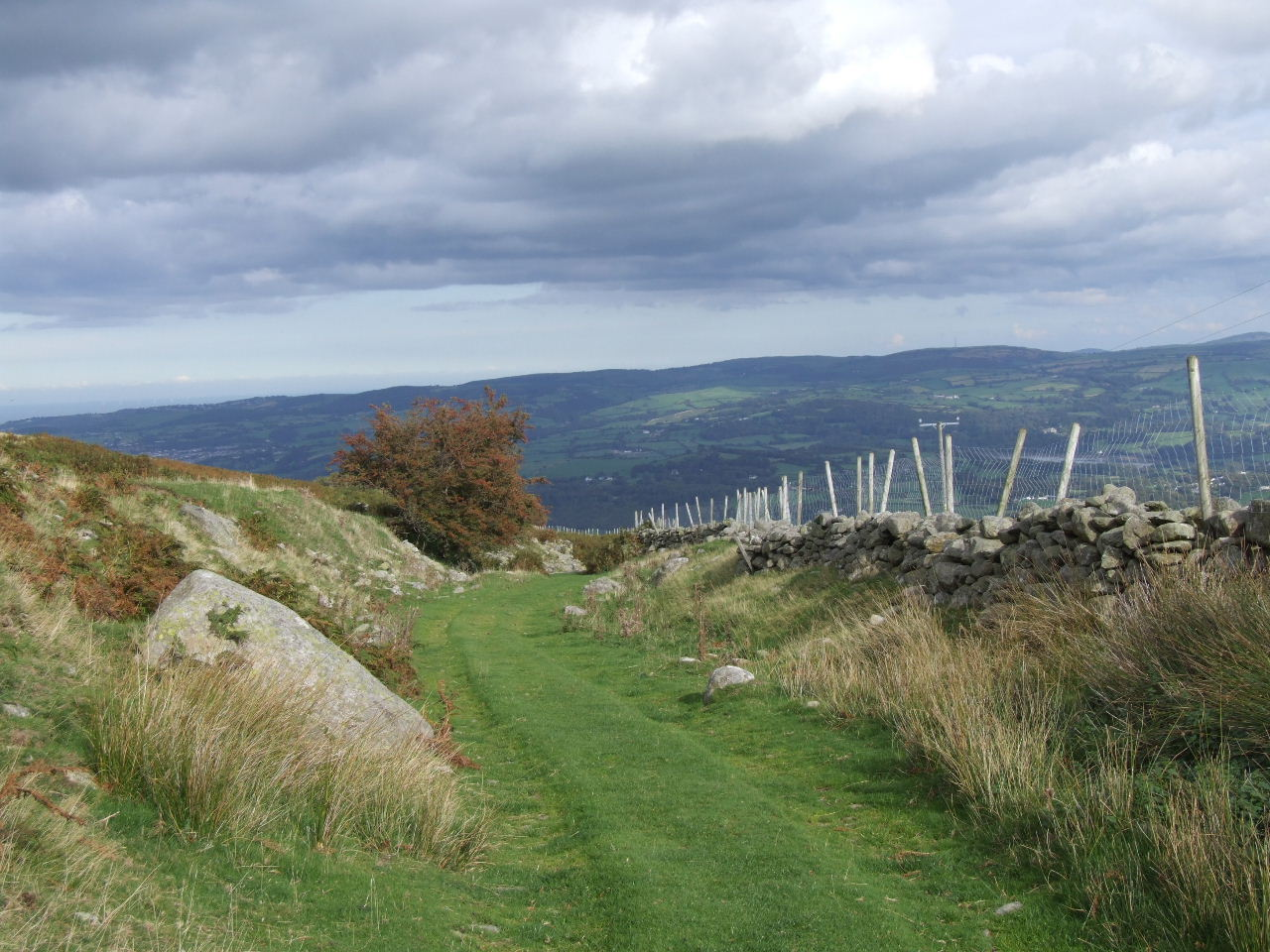 Portion of the Caerhun-Segontium Roman road, near Rowen, Conwy County, Wales.